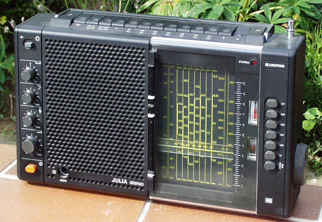 Radio "Julia-stereo", manufacturer: "ELTRA" (Poland), 1979